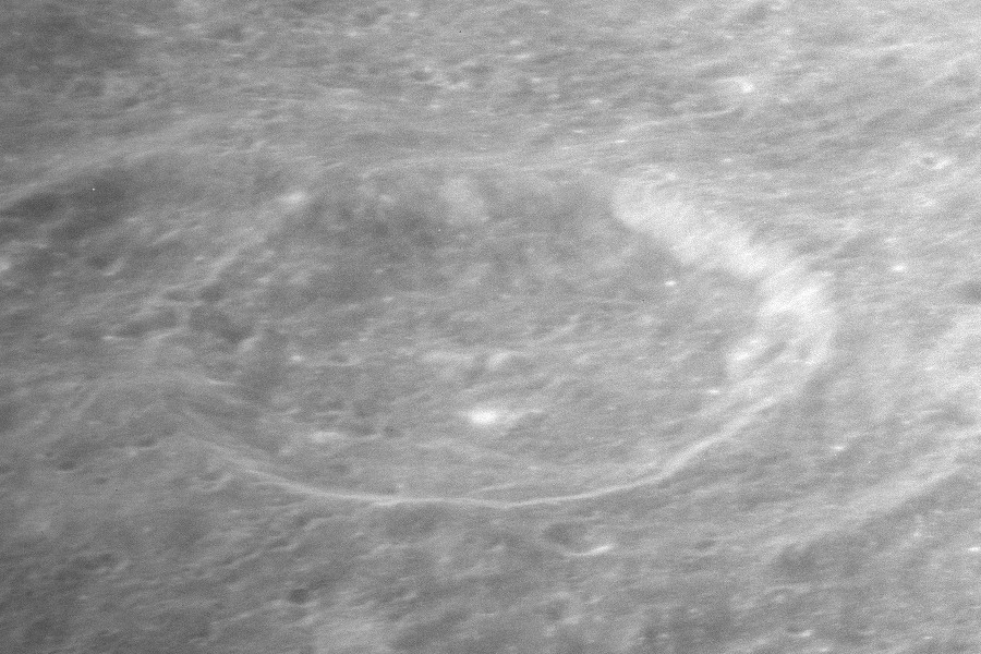 Oblique view of Burckhardt crater, on the moon. Taken by Apollo 16 panoramic camera during Trans-Earth Injection. Brightness and contrast adjusted in GIMP.